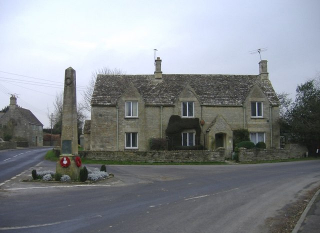 War memorial, Down Ampney Dedicated to the fallen of 1914-18.